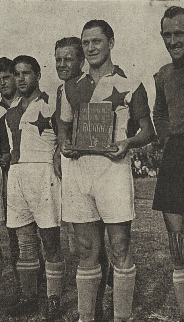 Czech footballer Josef Bican in August 1938